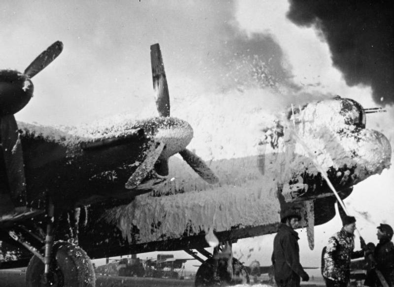 Royal Air Force Bomber Command, 1942-1945. Fire crews cover an Avro Lancaster of Bomber Command with foam in an effort to save it from burning, at B58/Melsbroek, Belgium, following the attack on the airfield by Luftwaffe fighter-bombers, (Operation BODENPLATTE).